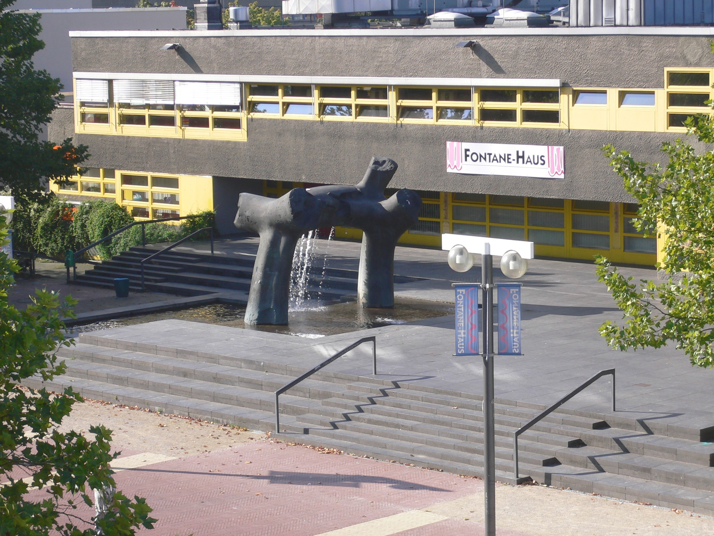 spring with sculpture "Fontanebogen" by Emanuel Scharfenberg, Fontane-Haus, Märkisches Viertel, Berlin, Germany